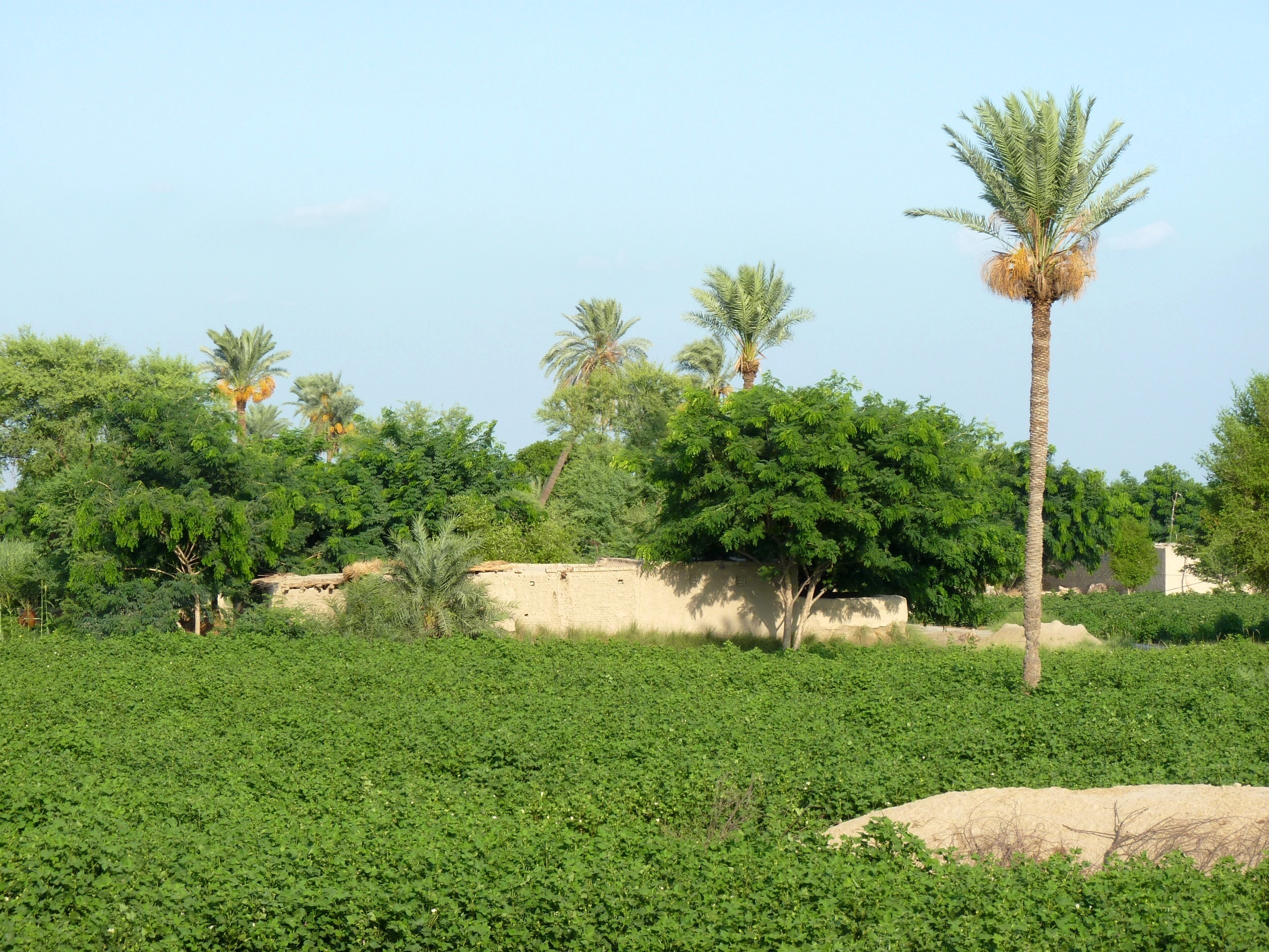 Cotton Farm